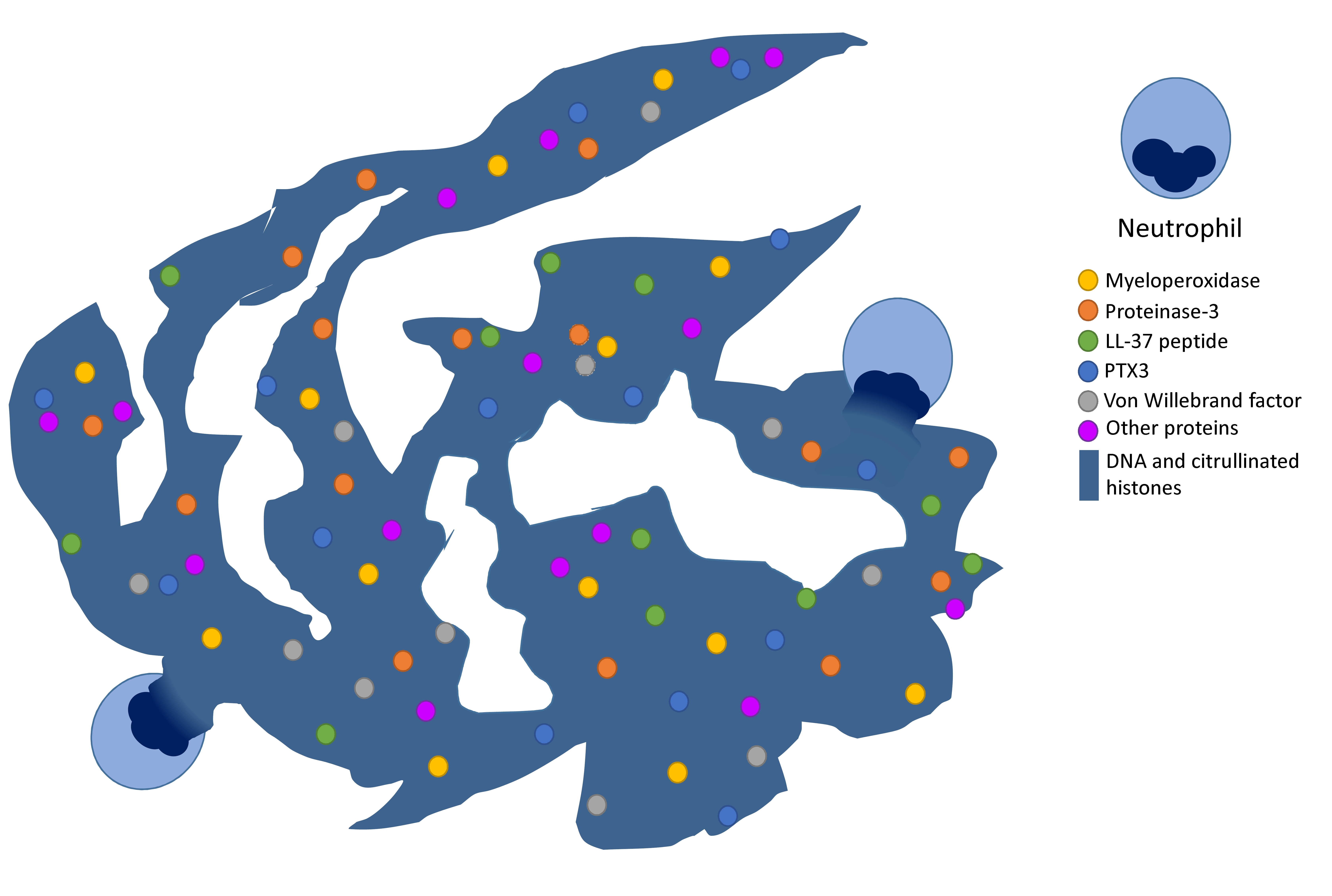 Schematic representation of Neutrophil Extracellular Traps generated by suicidal NETosis.